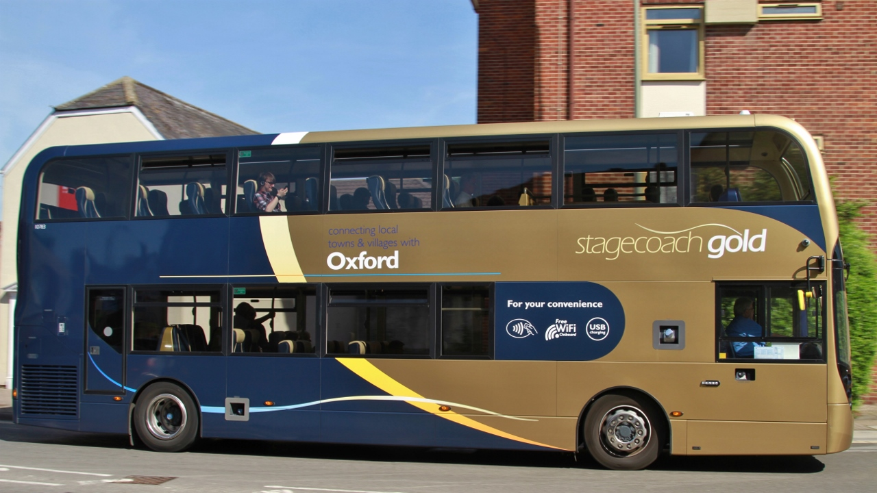 A Stagecoach in Oxfordshire bus on route 31 in The Vineyard, Abingdon-on-Thames, Oxfordshire. The bus is an Alexander Dennis Enviro400 MMC, registration mark SN66 VZE, fleet number 10783, in Stagecoach Gold livery.